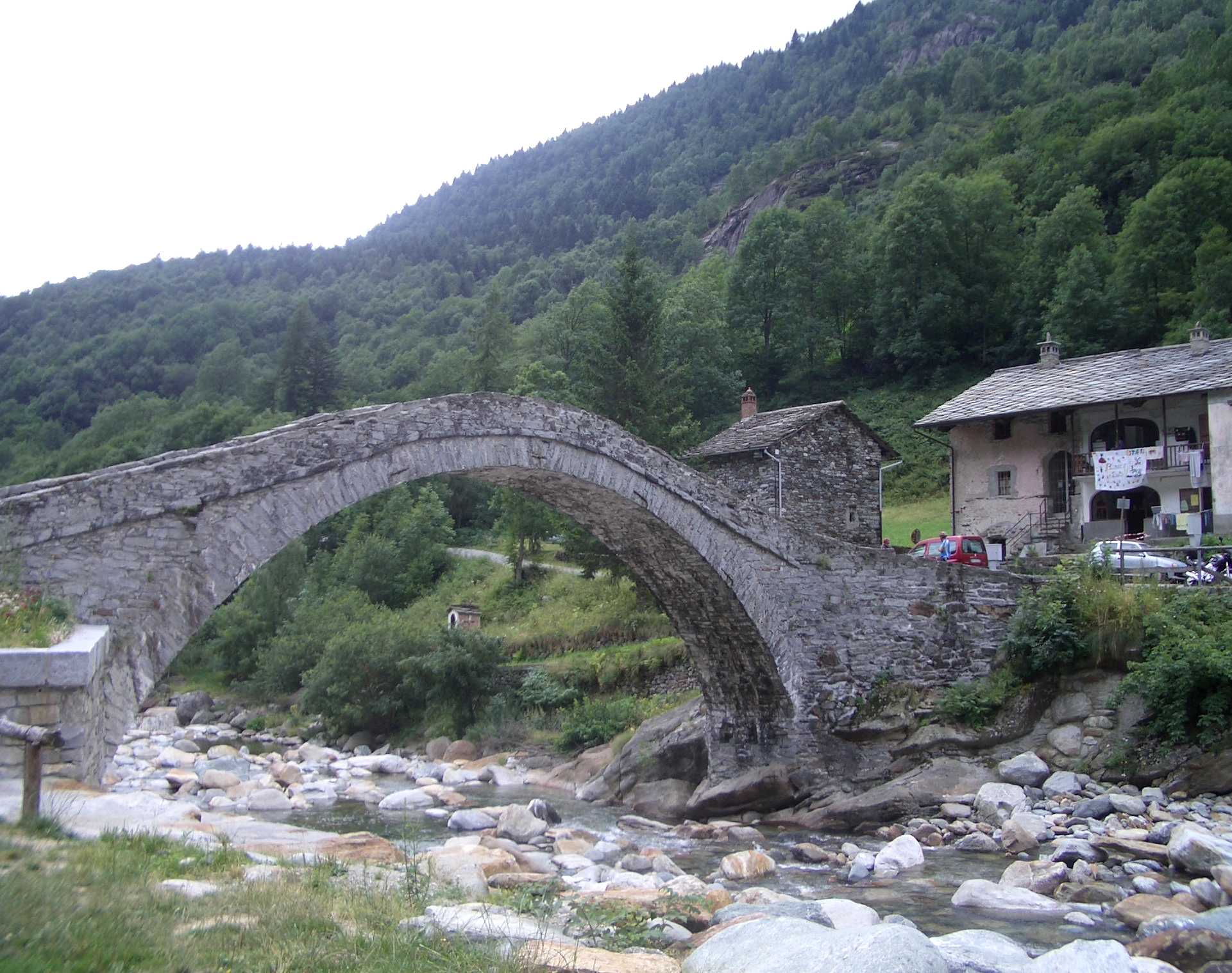 View of a bridge on the Chiusella river, Turin, Italy